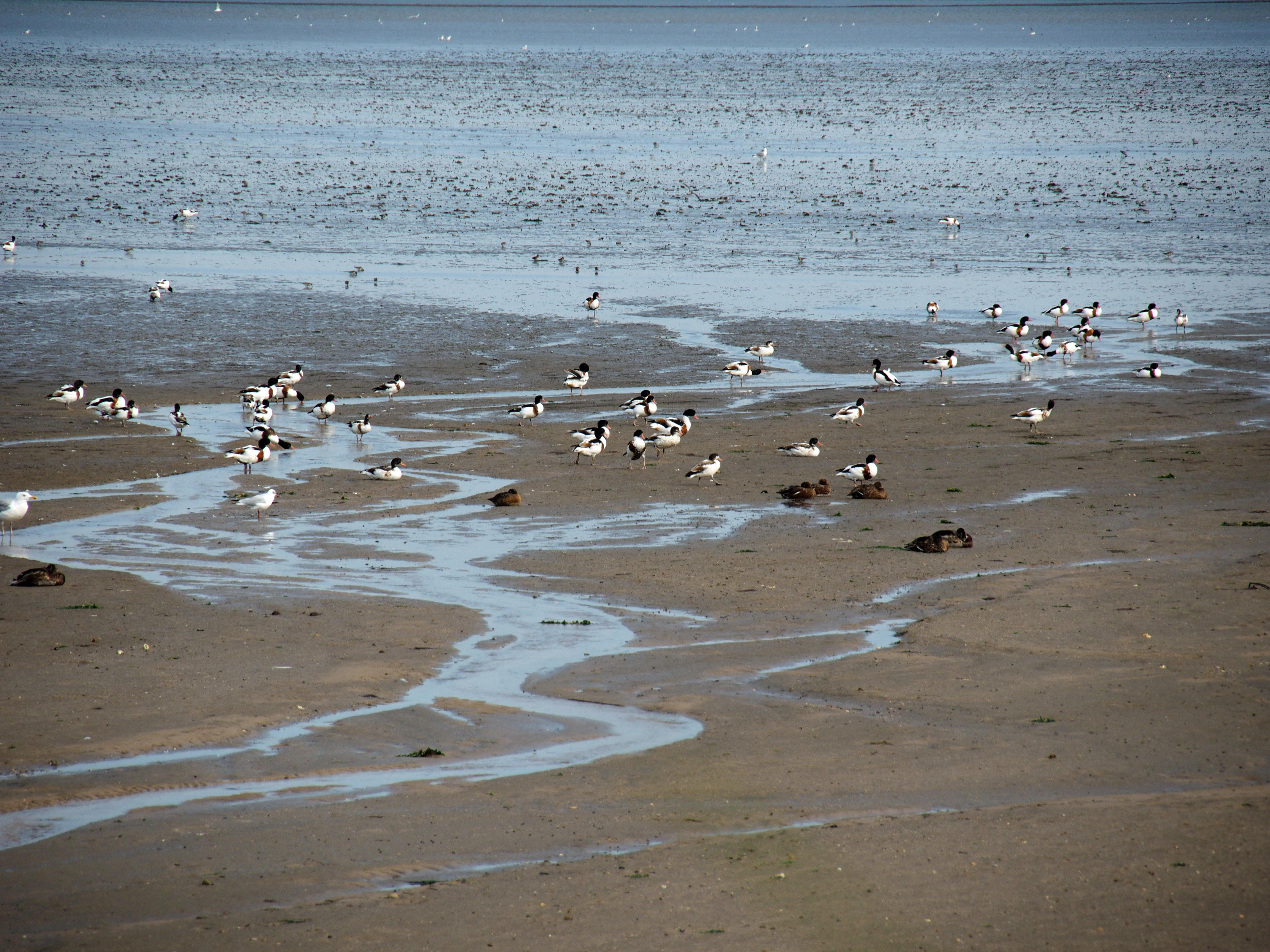 Northfrisian Waddensea east of Sylt